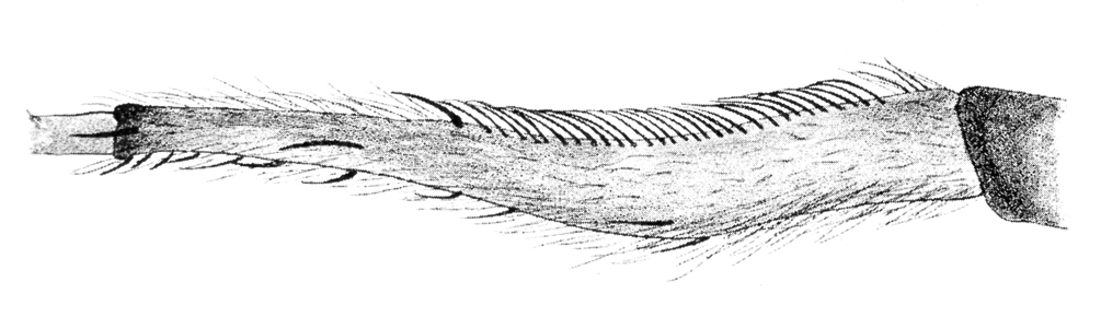 Calamistrum of Zosis geniculata (Uloborus geniculatus in original caption)